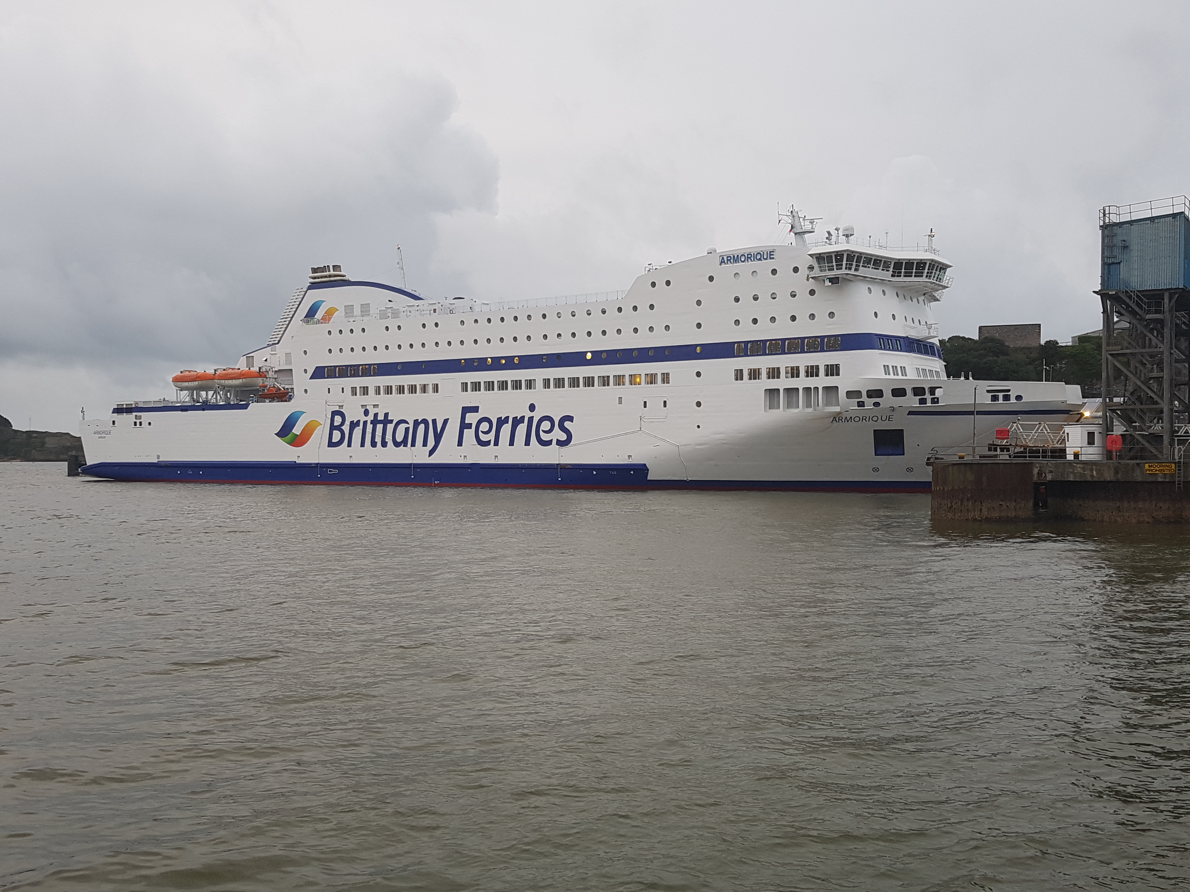 MV Armorique at Plymouth Ferryport